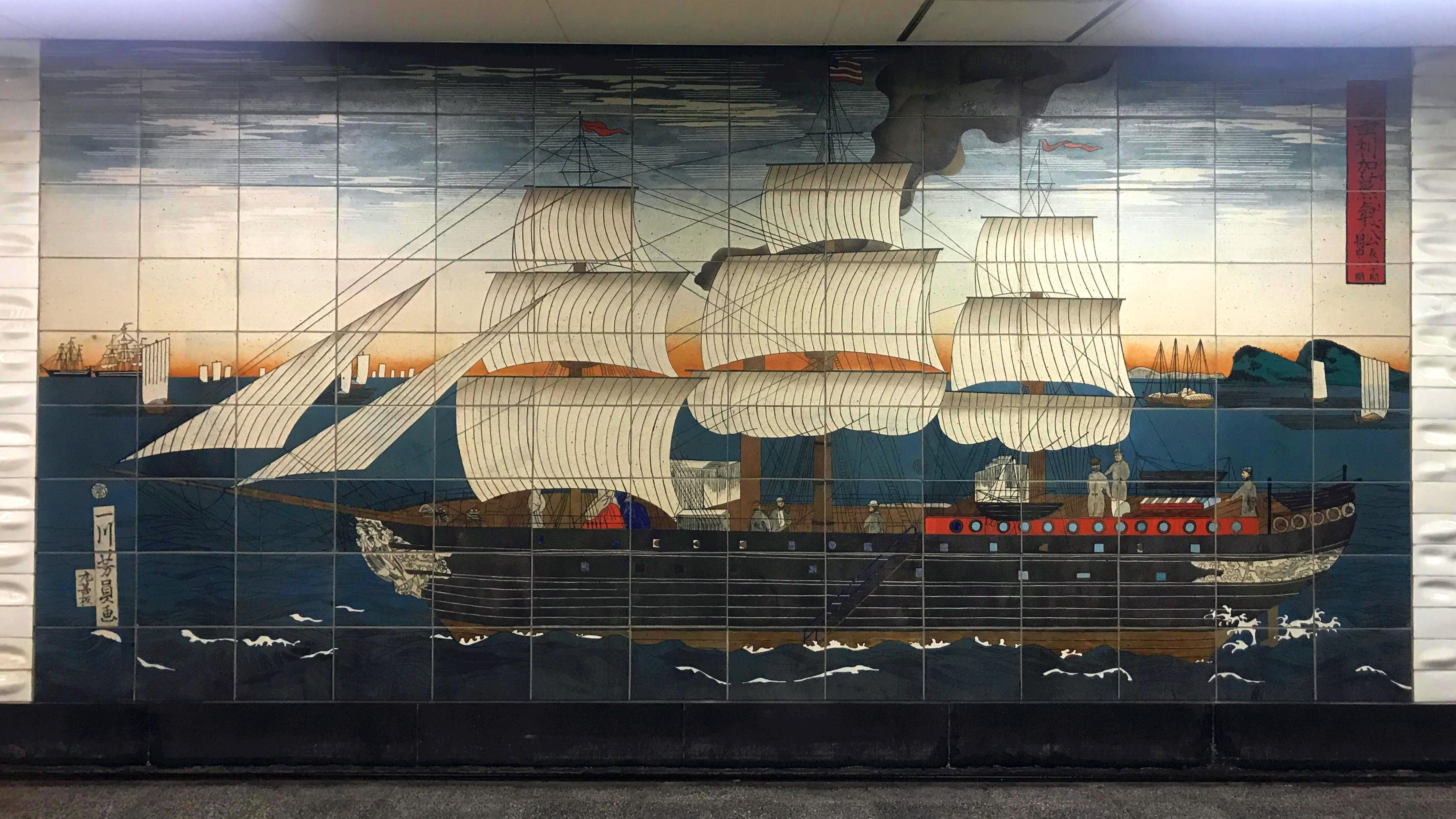 A tile painting installed on the premises of The Blue Line Kannai Station on the Yokohama Municipal Subway. Established in 1964. Original Prints: Yoshikazu Ichikawa (Yoshikazu Utagawa) "American Steamship" (1861) From Kanagawa Prefectural Museum of Cultural History COLLECTION.